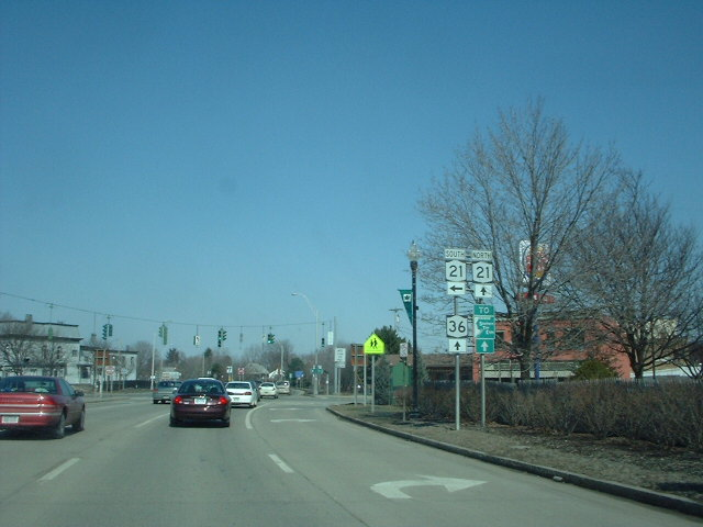 Northbound on New York State Route 36 at New York State Route 21 in Hornell.